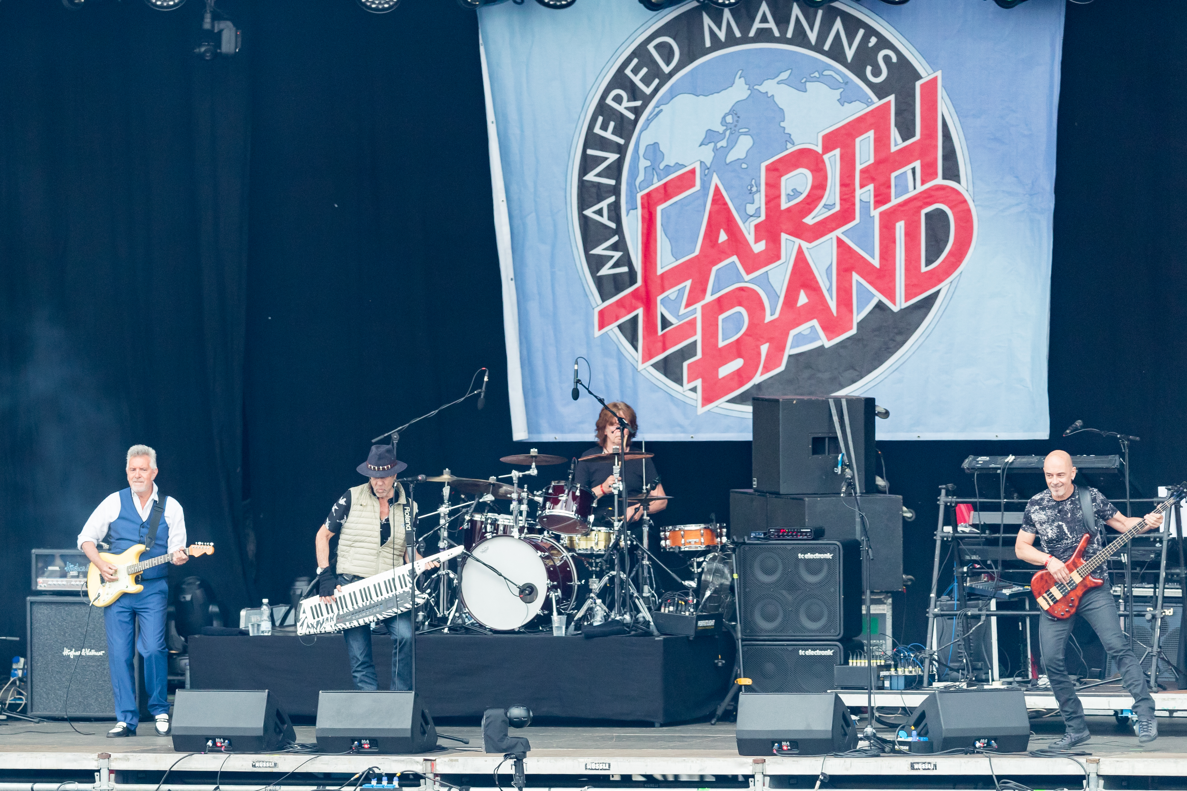 Manfred Mann's Earth Band @ Rock the Ring 2018